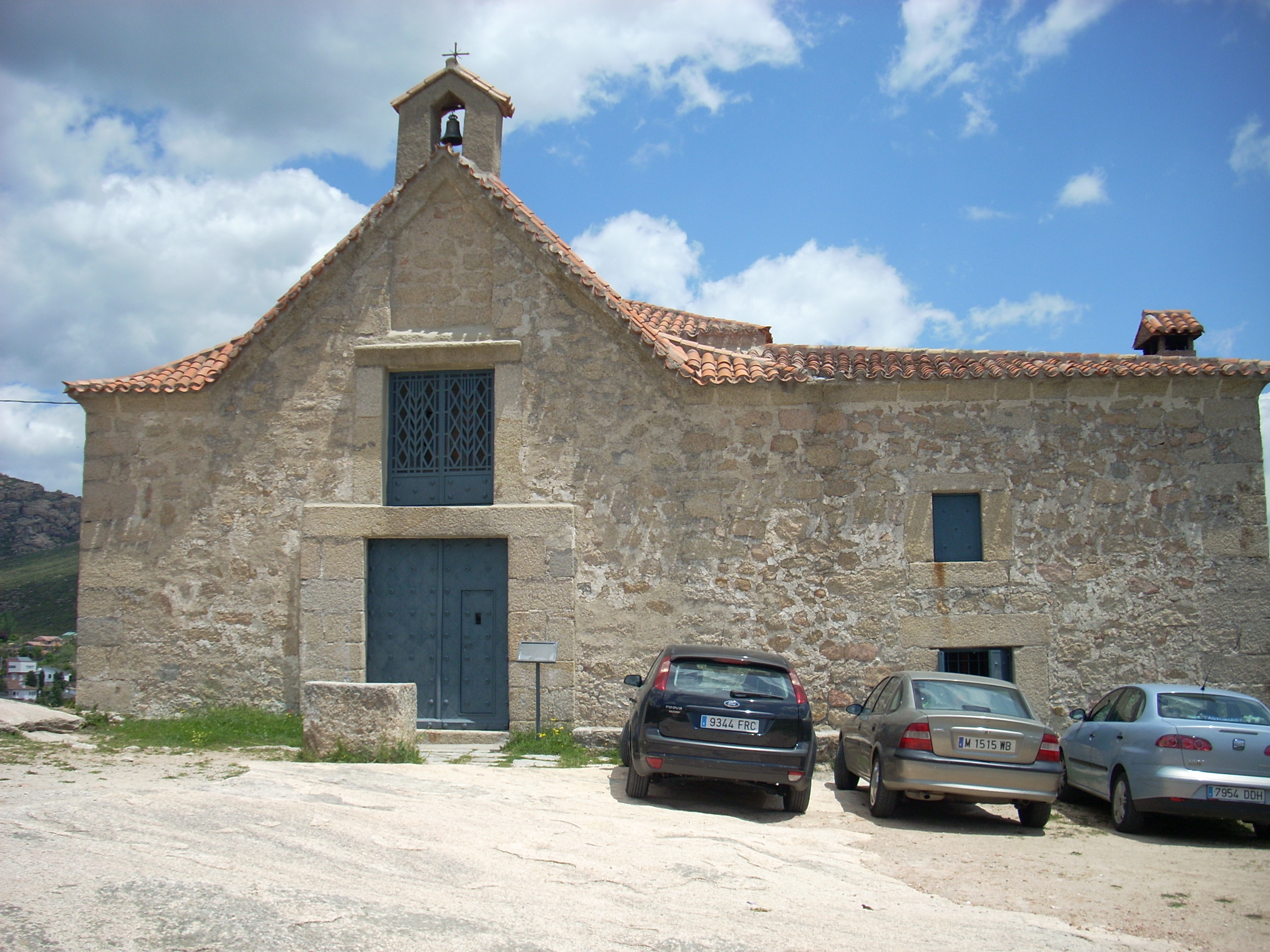 Hermitage of Peña Sacra, Manzanares el Real, Madrid